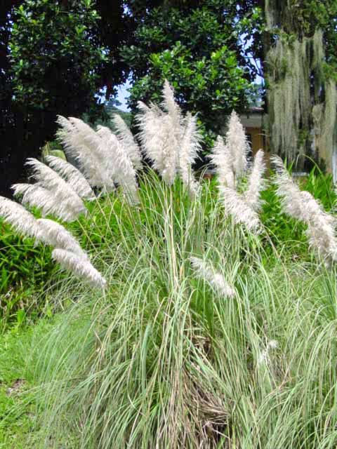 Panicles of Cortaderia selloana, or Pampas Grass. Tall white feathery plumes. Photo by M. A. P. Accardo Filho.